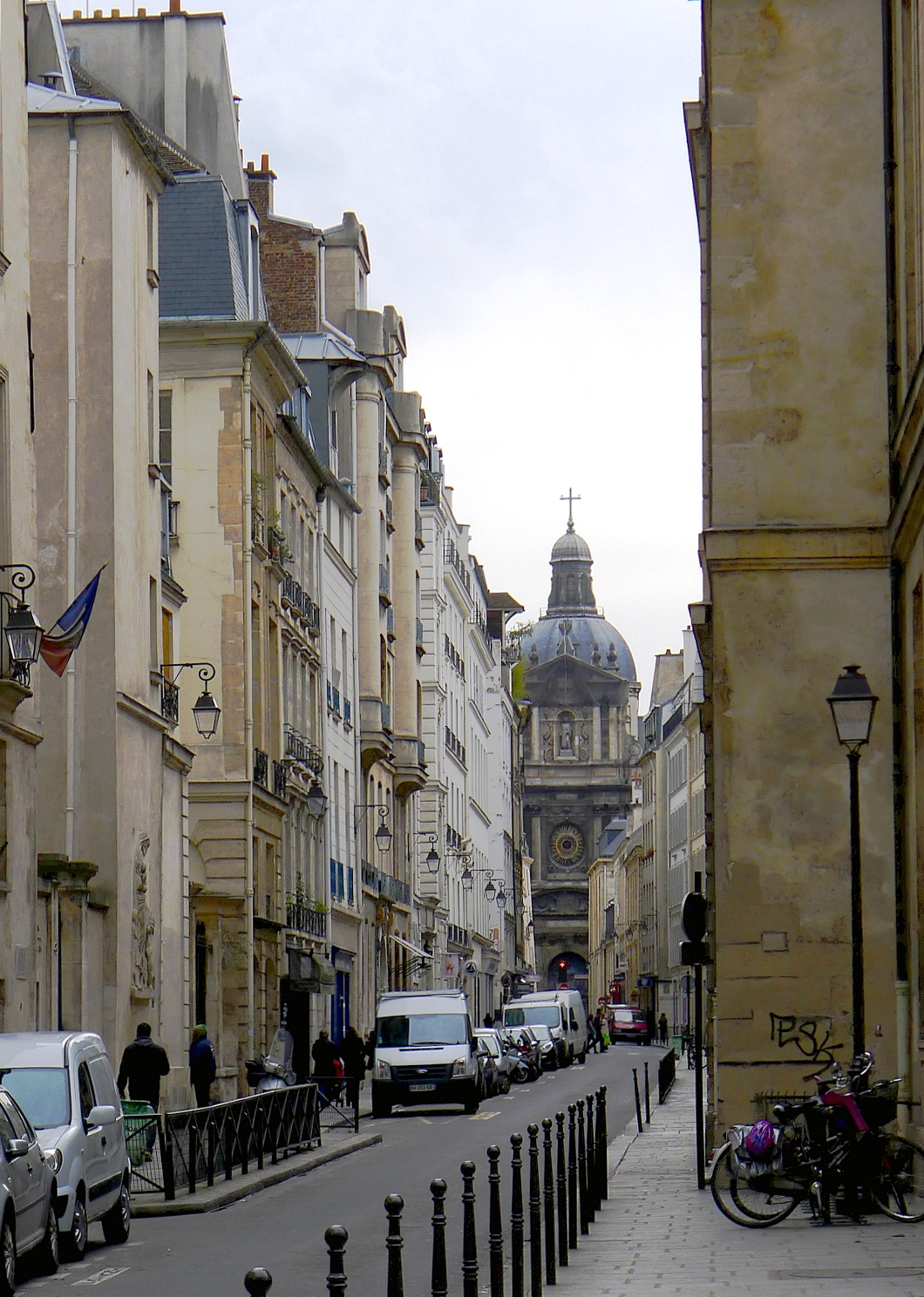 Sévigné street - Paris